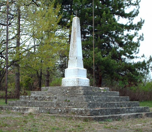 The war monument in village Milchina laka, Bulgaria